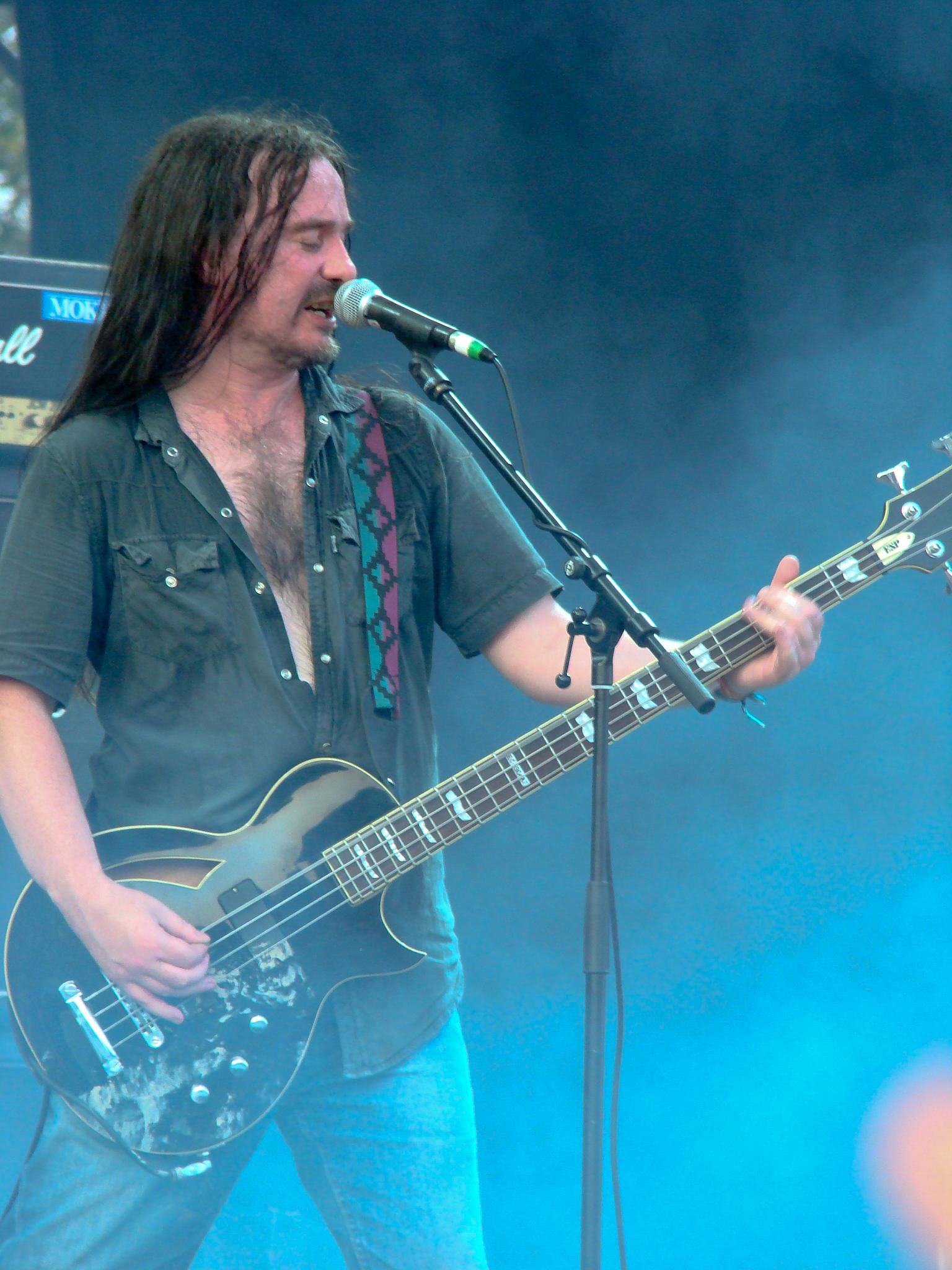 Jeff Walker performing with Carcass at Gods of Metal festival in Bologna, Italy.